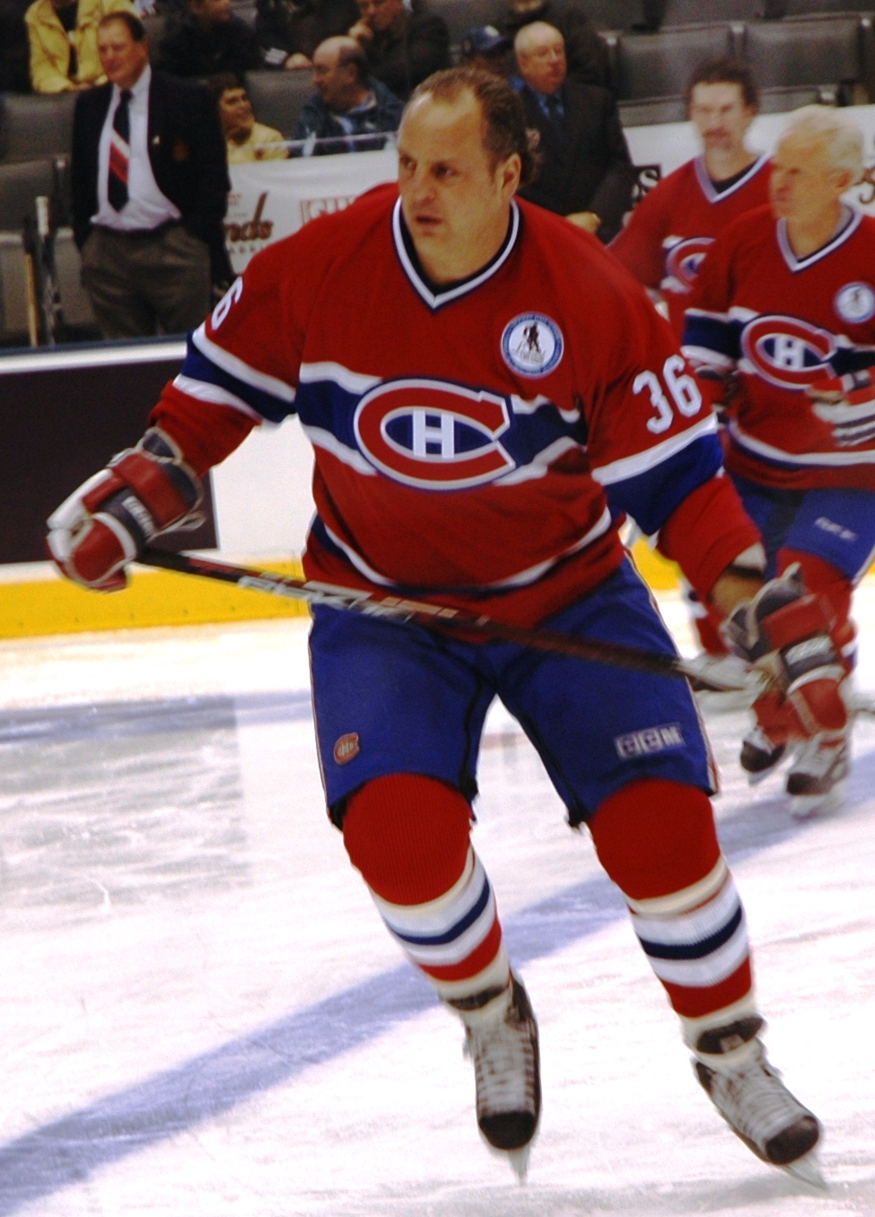 Sergio Momesso played with Montreal Canadiens Alumni at the Legends Clasic in Toronto